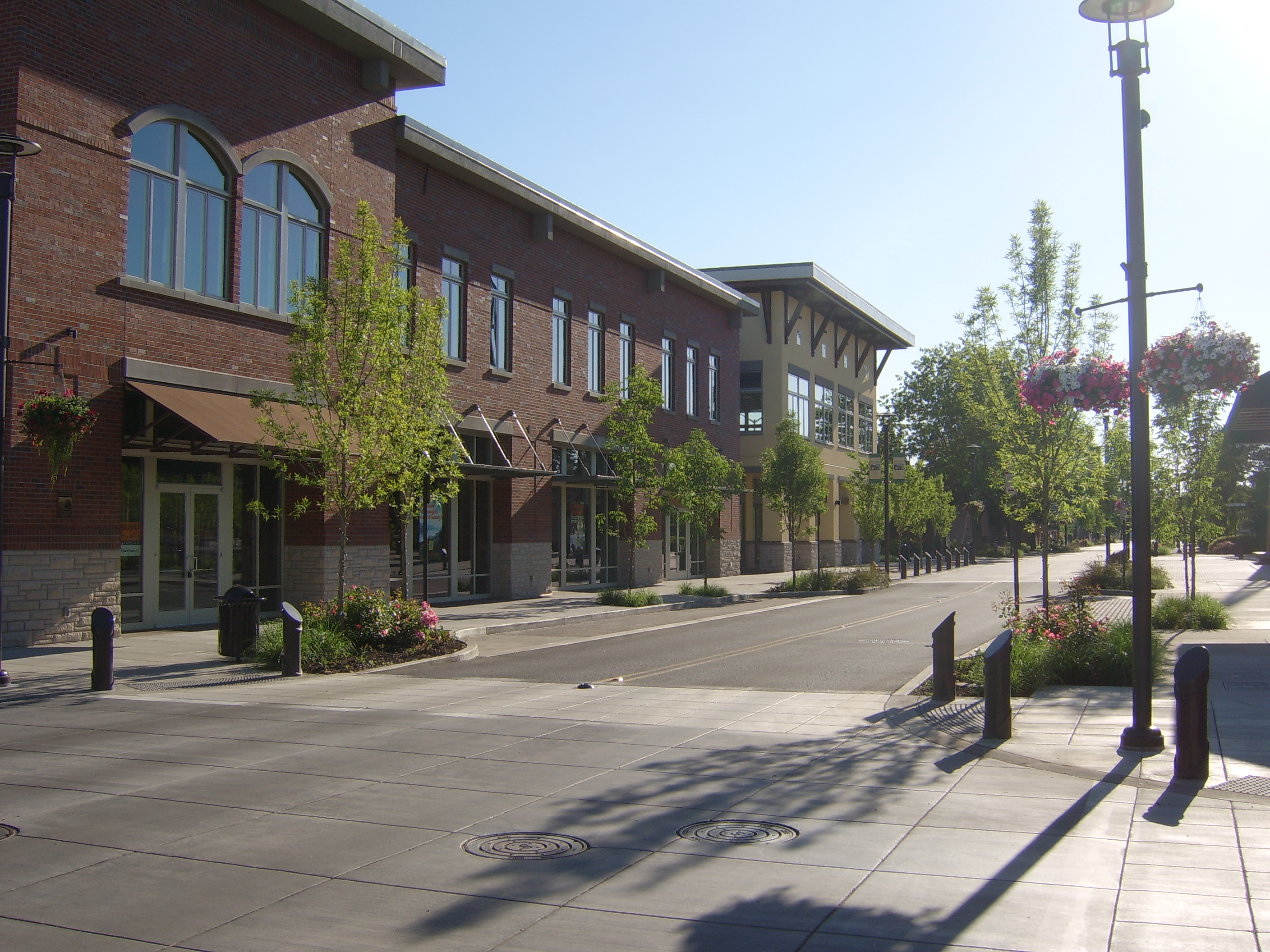 Image of downtown Washougal, Washington facing west.